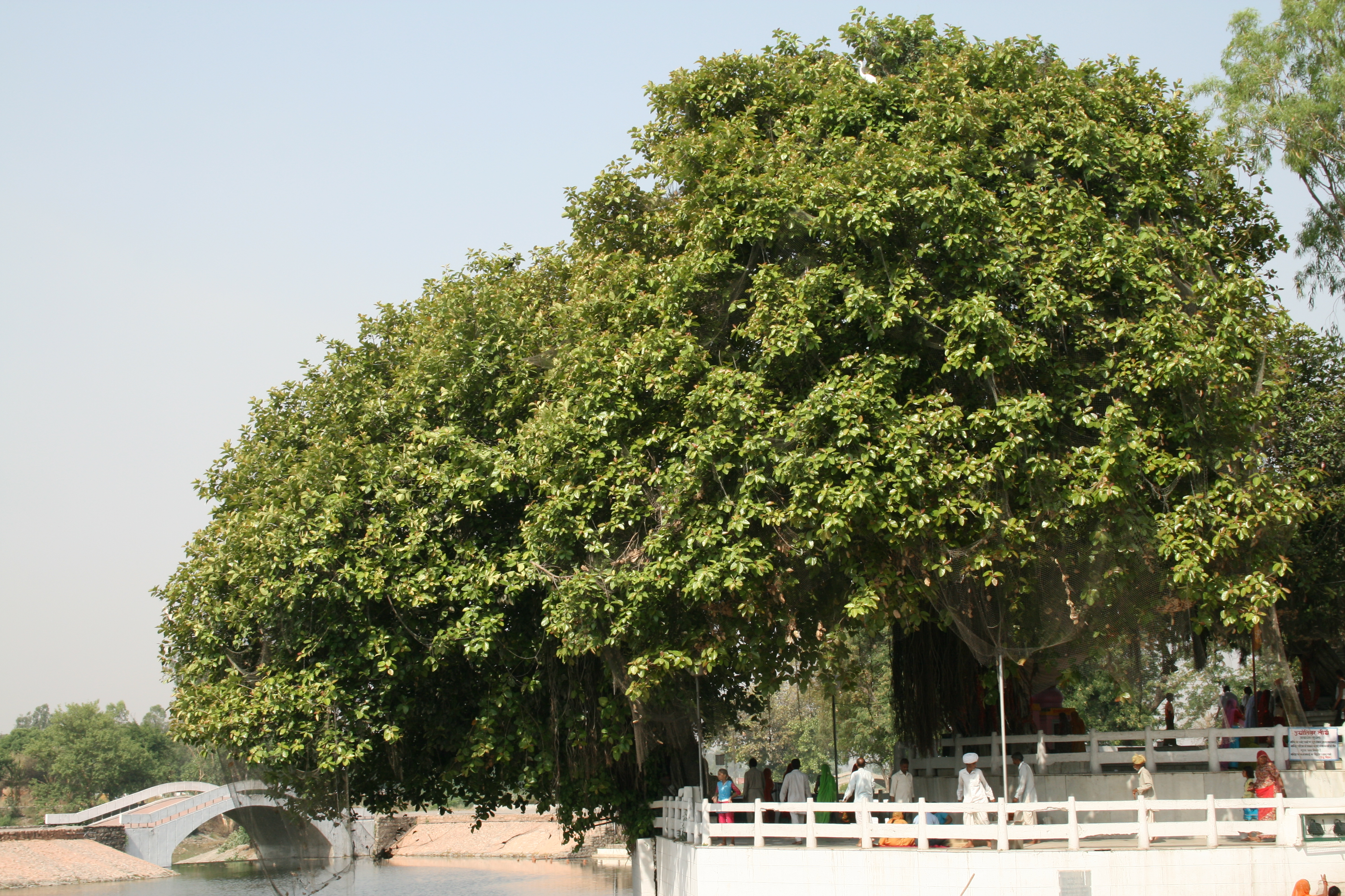 Sacred banyan tree at Jyotisar in Kurukshetra district.